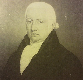 Jan van Styrum, (1757-1824) dutch politicien and french prefect of the First Empire